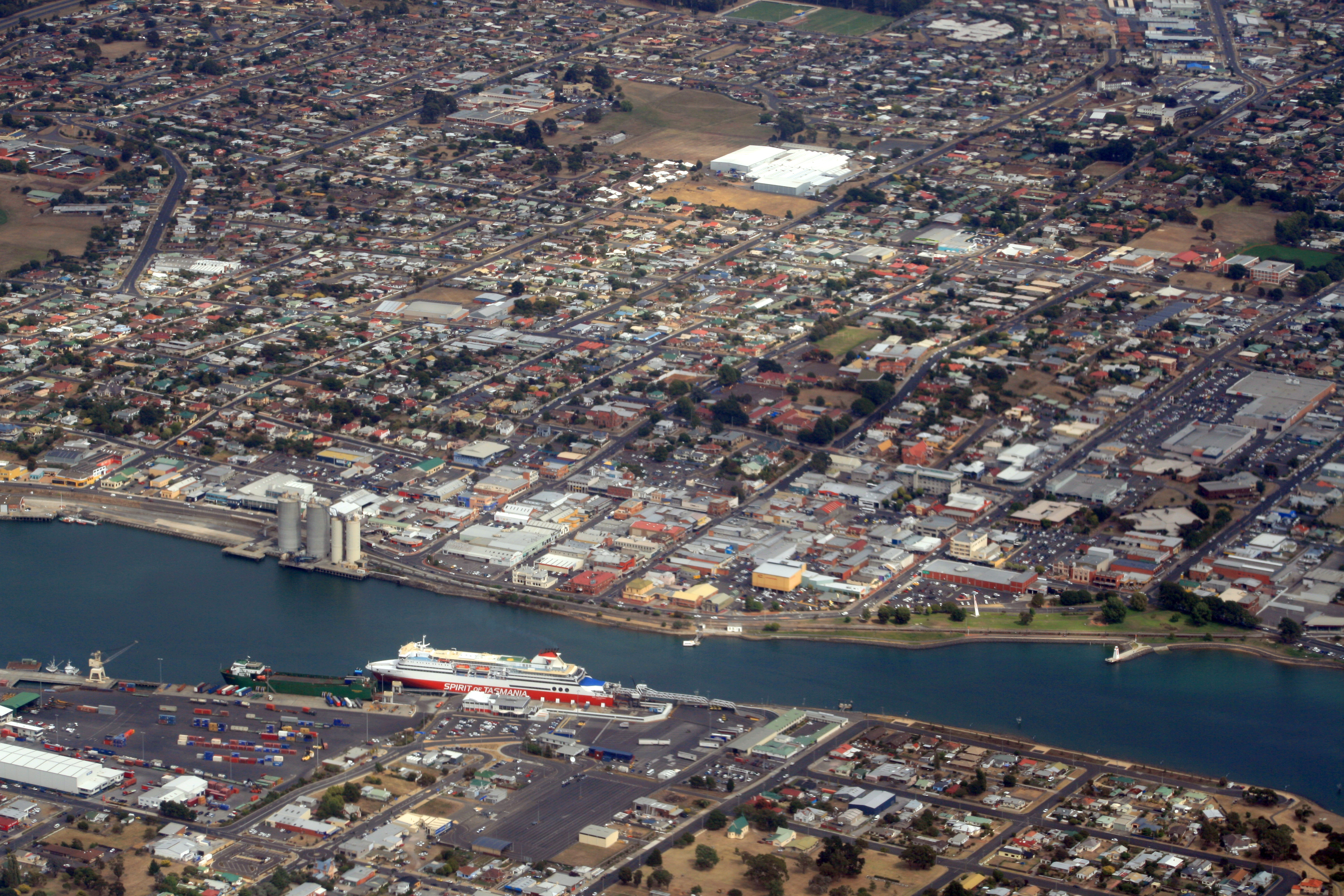 Central Devonport in Tasmania, seen from the air looking roughly South-West.